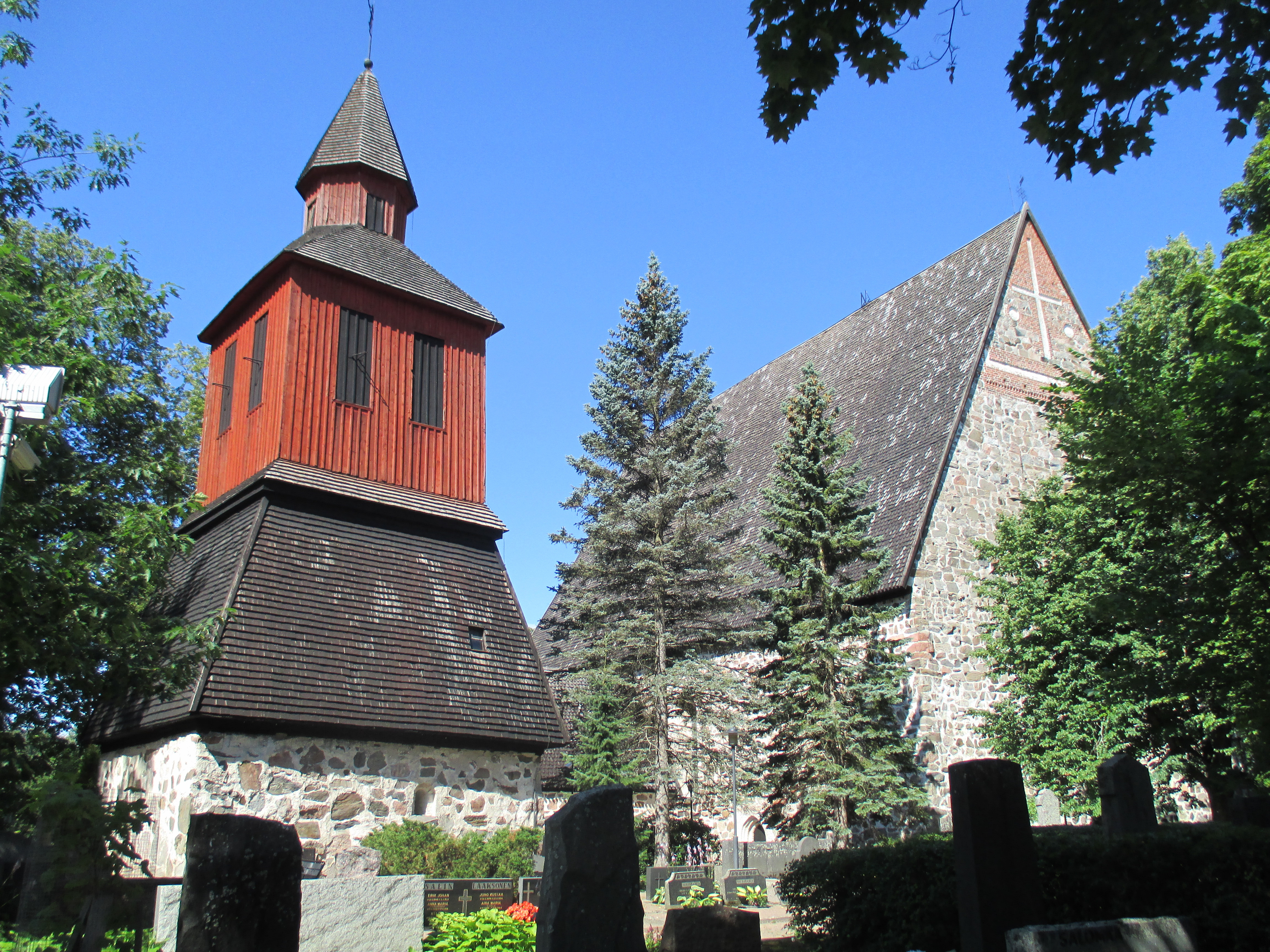 Saint Lawrence Church, Lohja, Finland.